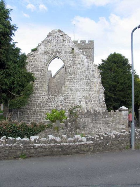 St Illtud, Llantwit Major, Glamorgan, Wales - ruin at west end